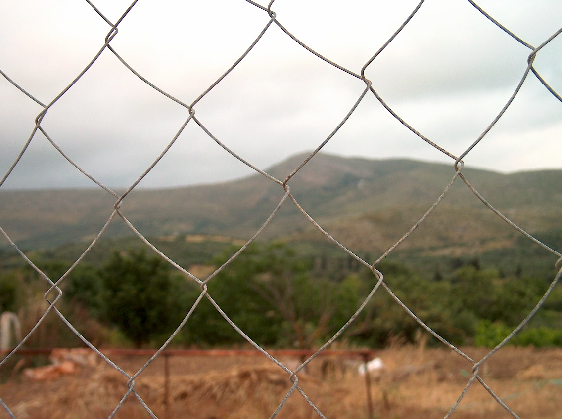 Wire net fence in Crete